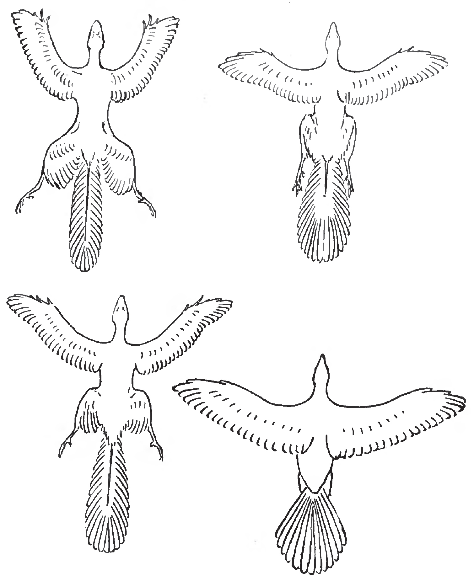 STAGES IN THE DEVELOPMENT OF FLIGHT Tetrapteryx, Archaeopteryx, Hypothetical Stage, Modern Bird. After Beebe.